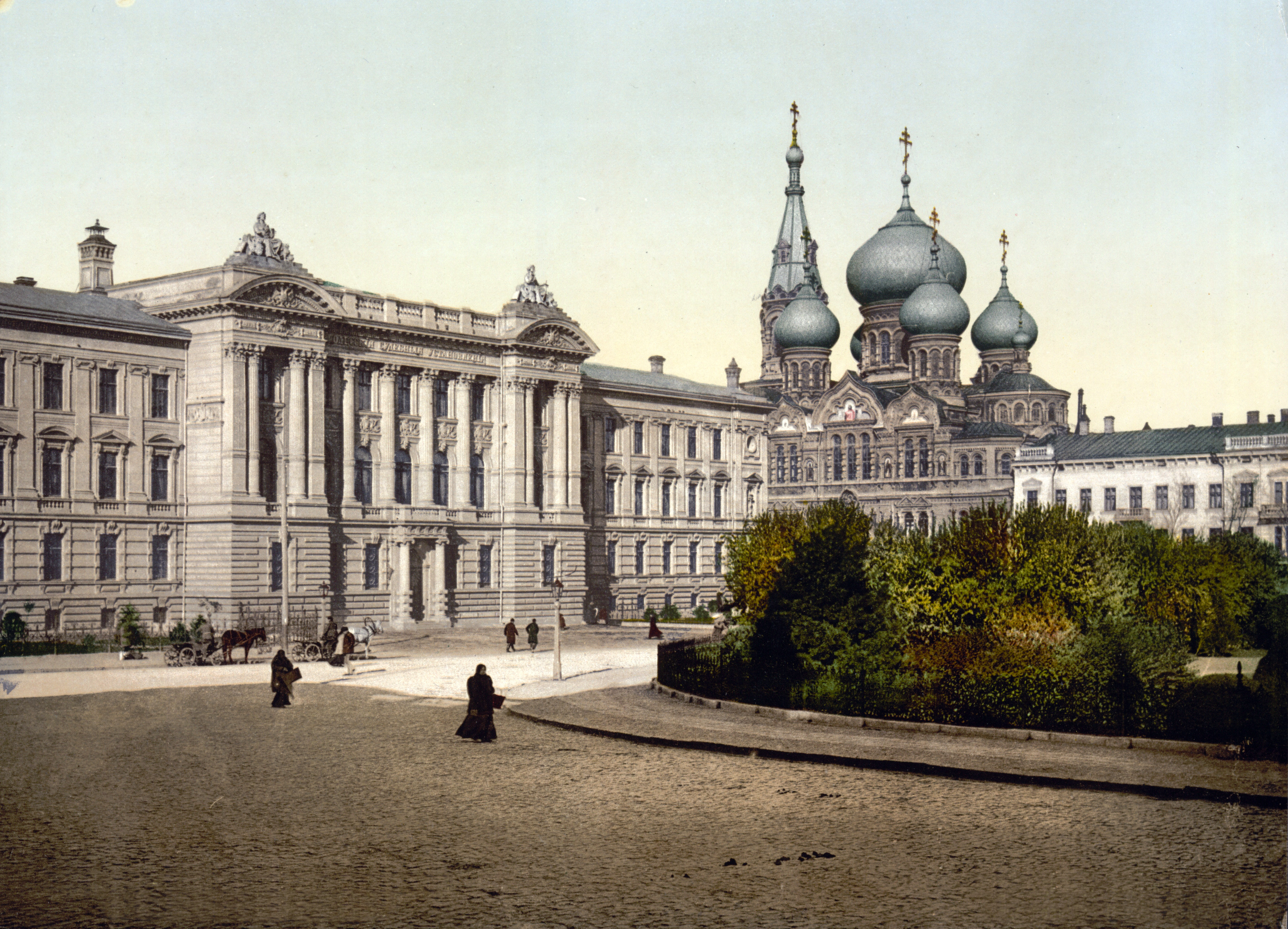 Palais de Justice and Pantelimon Church, Odessa, Russia, (i.e., Ukraine) Print no. "8887"